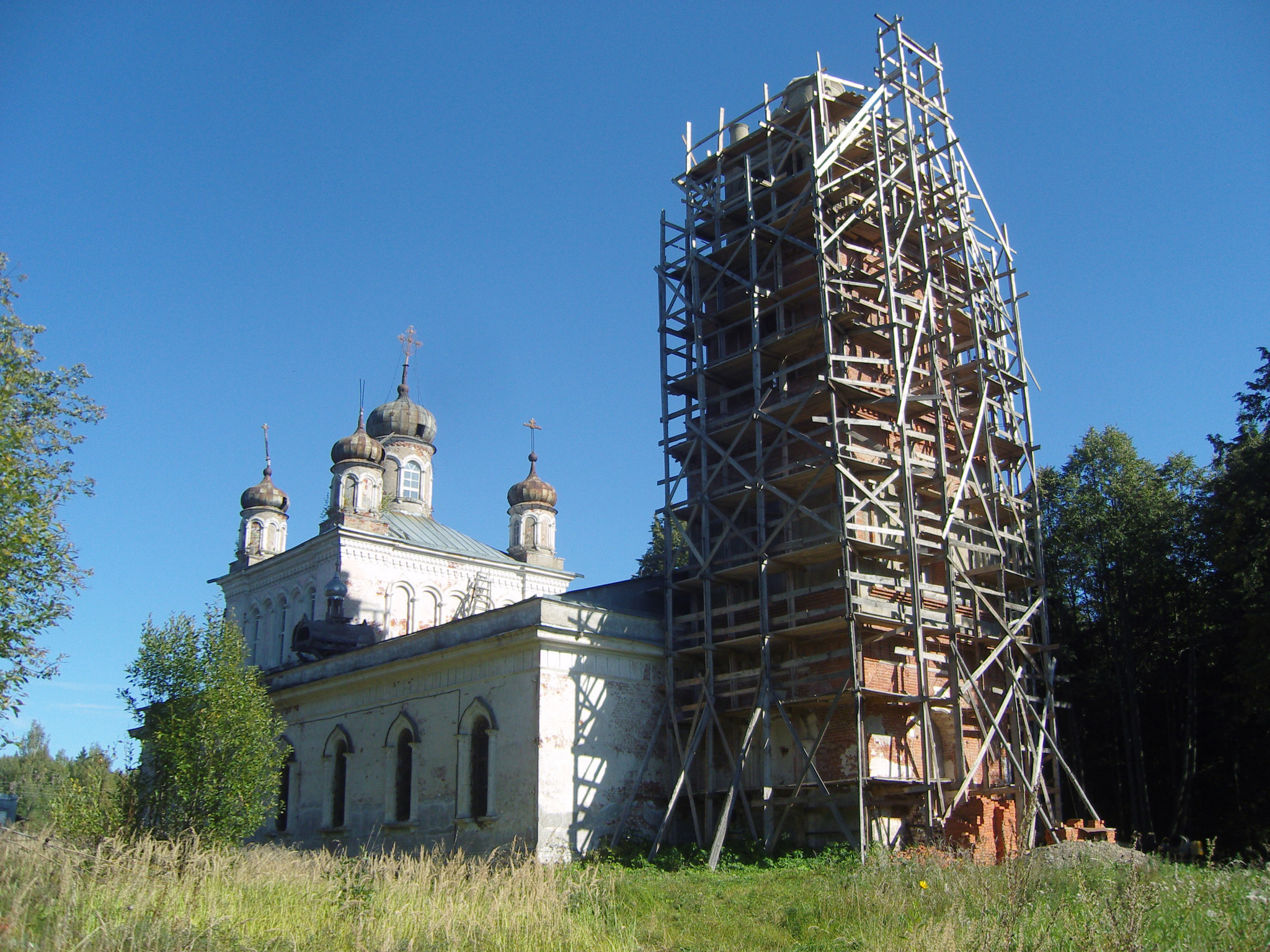 Church of St. George at St. George churchyard. Village Podterebovo, Klinsky district, Moscow region.